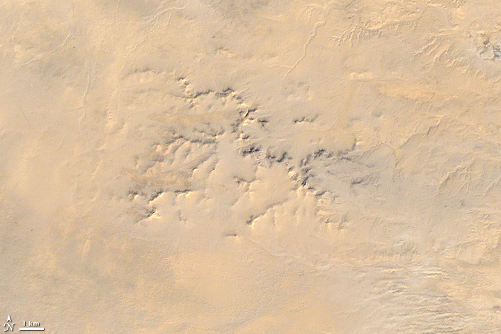 Sidi Toui zone in 1987, 54 km South of Benguerdène, Medenine, Tunisia